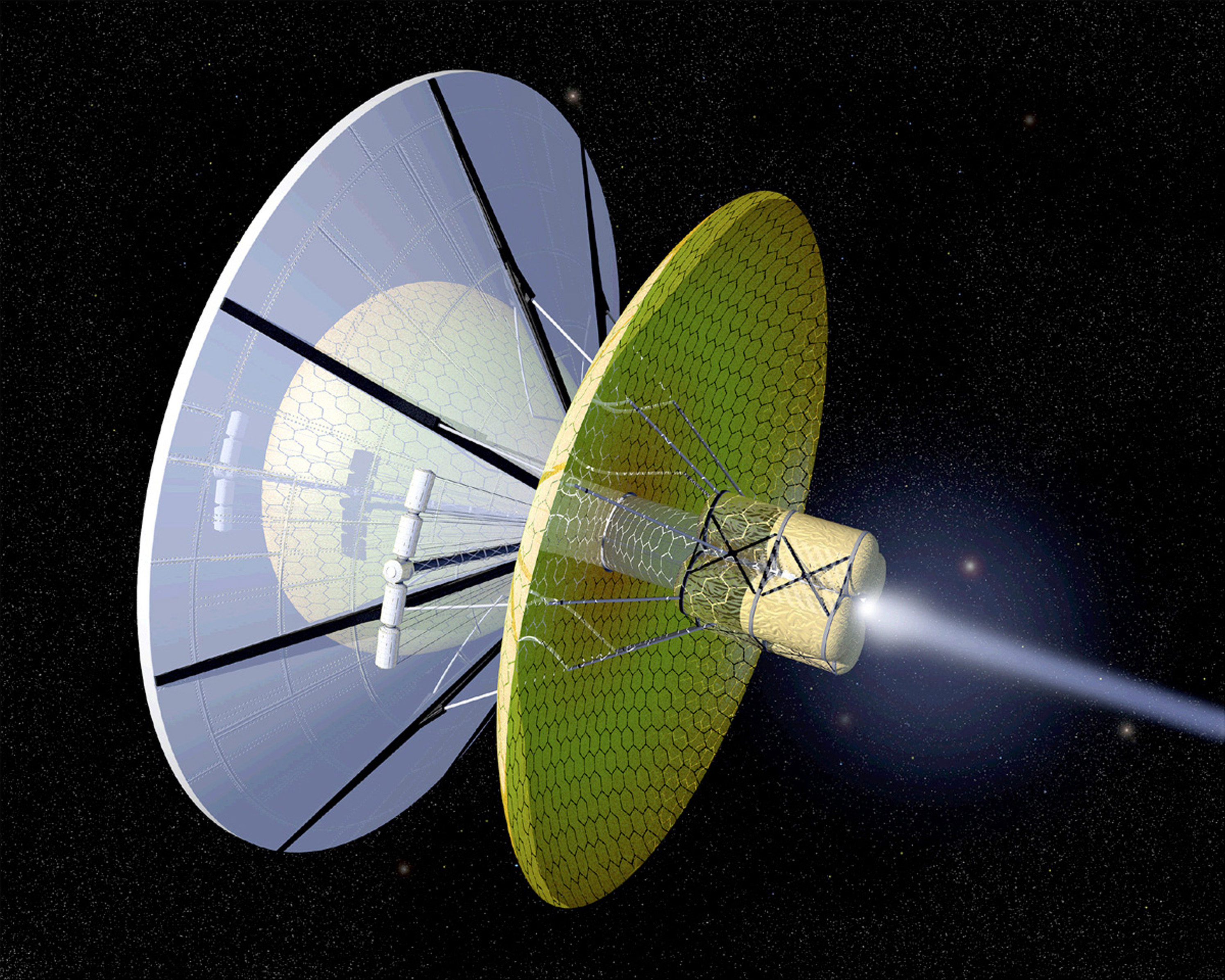 The Bussard Interstellar Ramjet engine concept uses interstellar hydrogen scooped up from its environment as the spacecraft passes by to provide propellant mass. The hydrogen is then ionized and collected by an electromagentic field. In this image, an onboard laser is used to heat the plasma, and the laser or electron beam is used to trigger fusion pulses thereby creating propulsion.